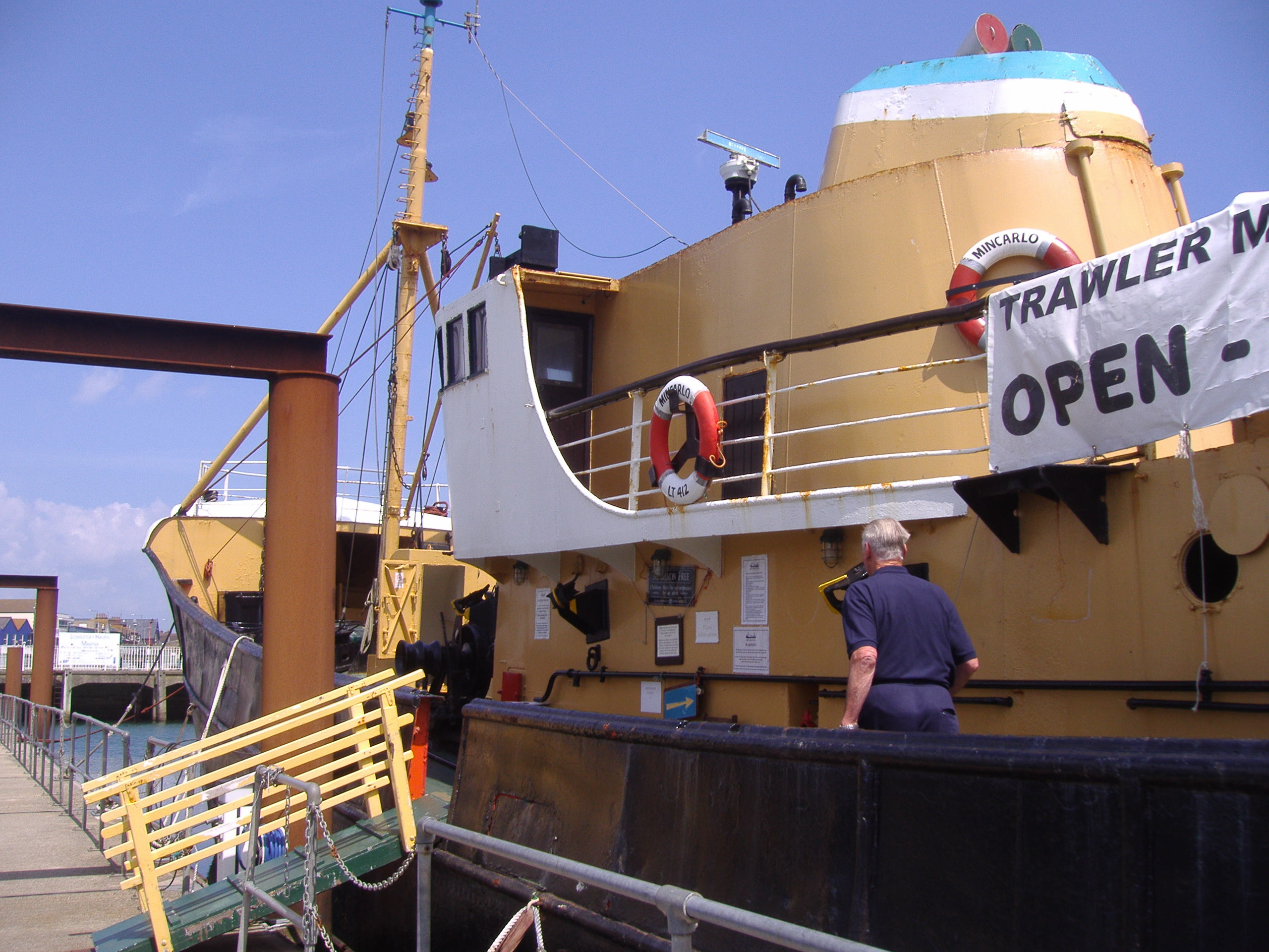 The Minicarlo Diesel Trawler LT412, Lowestoft, Norfolk